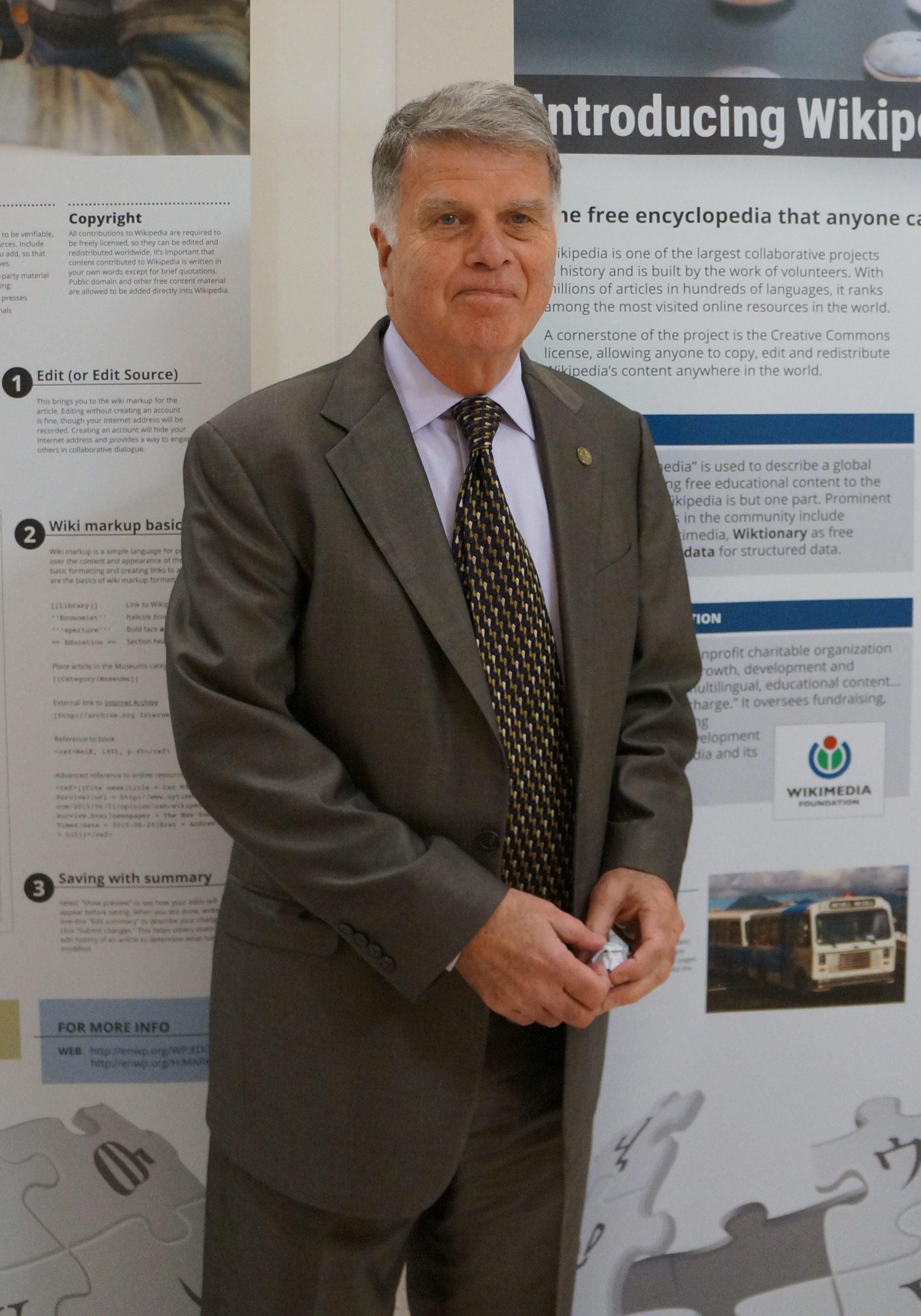 David Ferriero at WikiConference USA 2015